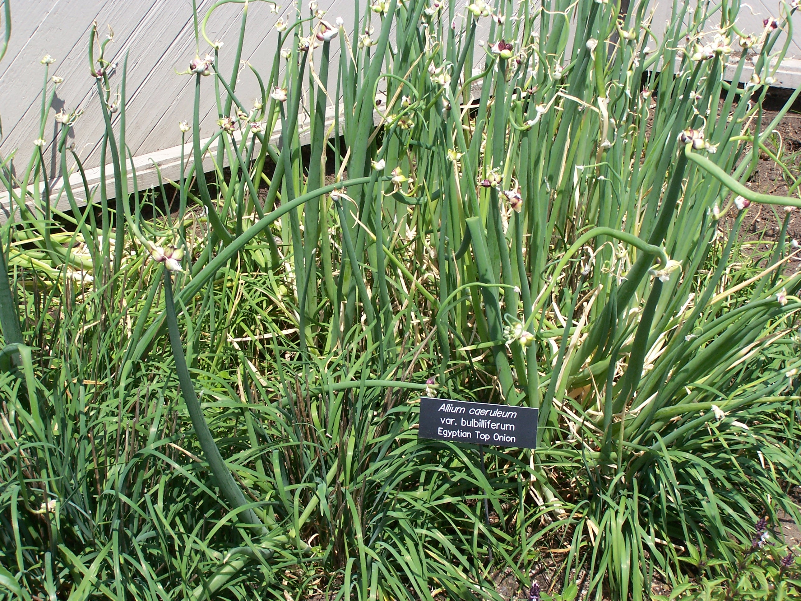 Allium × proliferum Egyptian Top Onion at Minnesota Landscape Arboretum